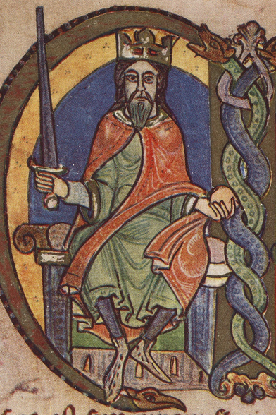 Detail from the charter of Malcolm IV, King of Scotland to Kelso Abbey showing an illustration of David I, King of Scotland.